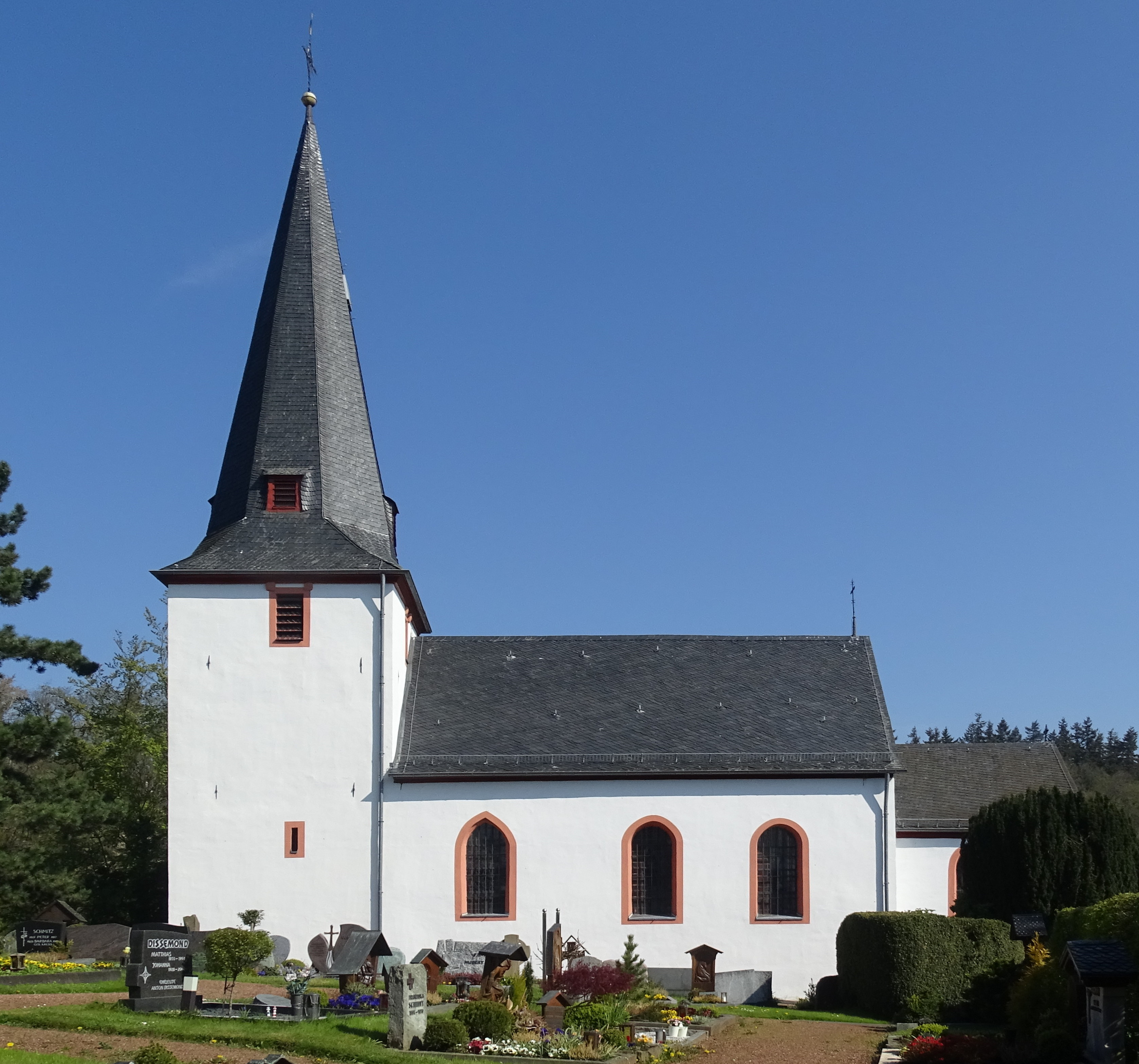 Catholic parish church of zum Heiligen Kreuz in Kreuzweingarten